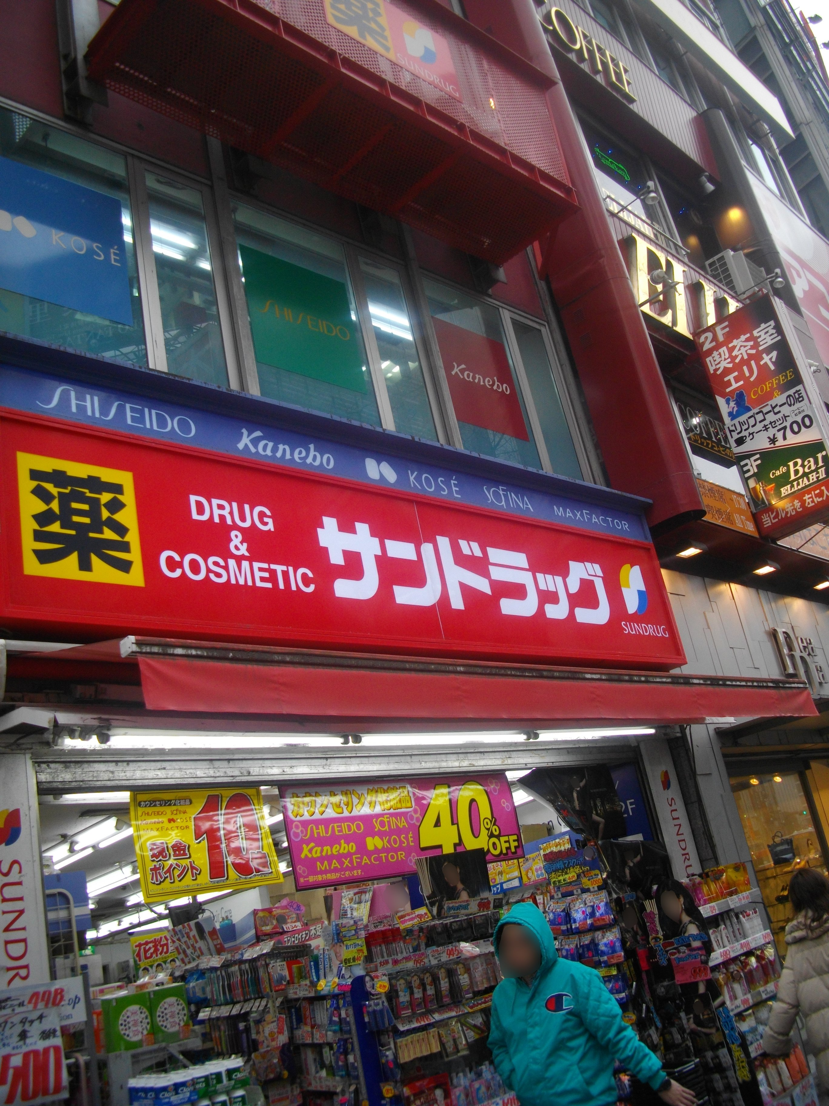 A photo of Sun Drug(A pharmacy in Tokyo.) Shibuya branch shop. Dogenzaka,Shibuya-ku,Tokyo,Japan.